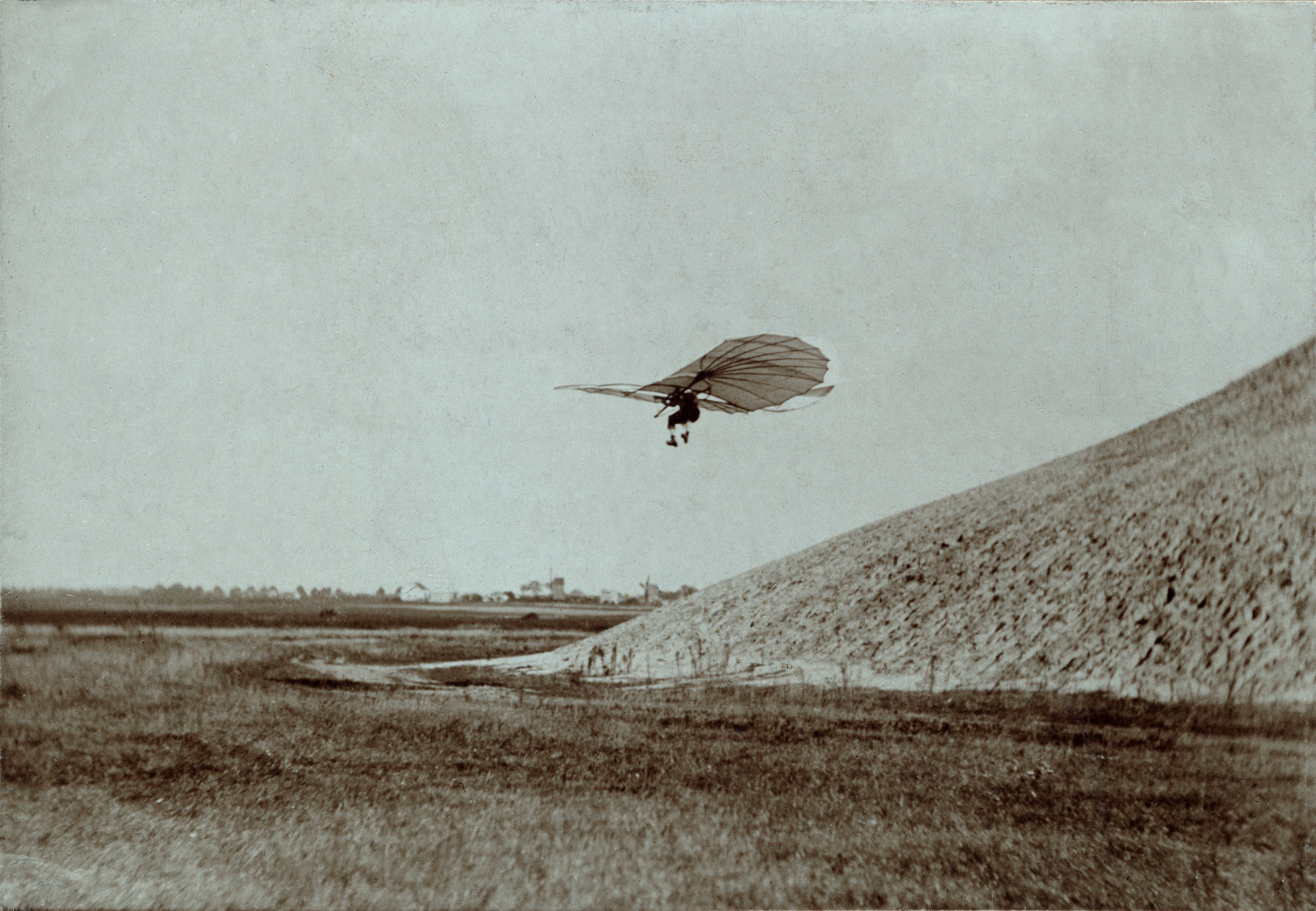 Otto Lilienthal performing one of his gliding experiments.